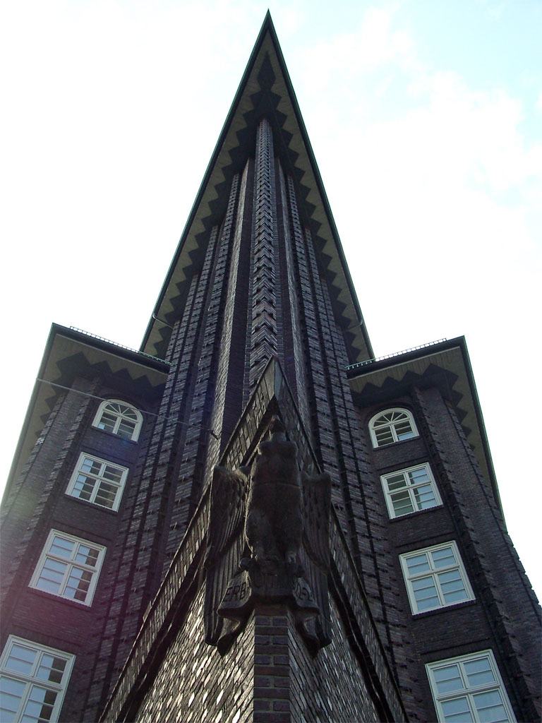 Das Chilehaus in Hamburg-Altstadt This is a photograph of an architectural monument.